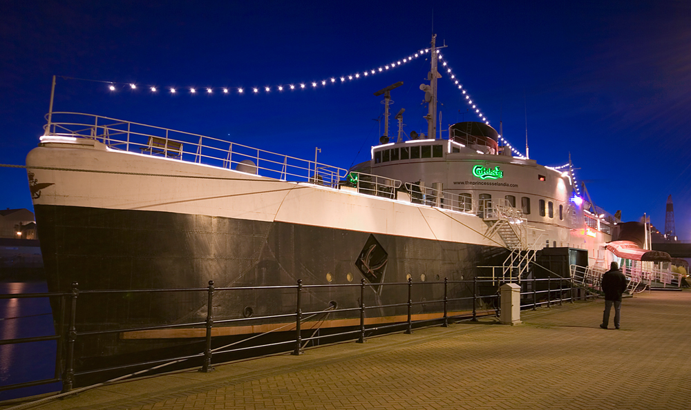 Princess Selandia was a former Danish ferry seen here berthed in Buccleuch Dock, Barrow-in-Furness. It served as a nightclub, restaurant and general venue. The ship is still moored in Buccleuch Dock but is no longer open to the public